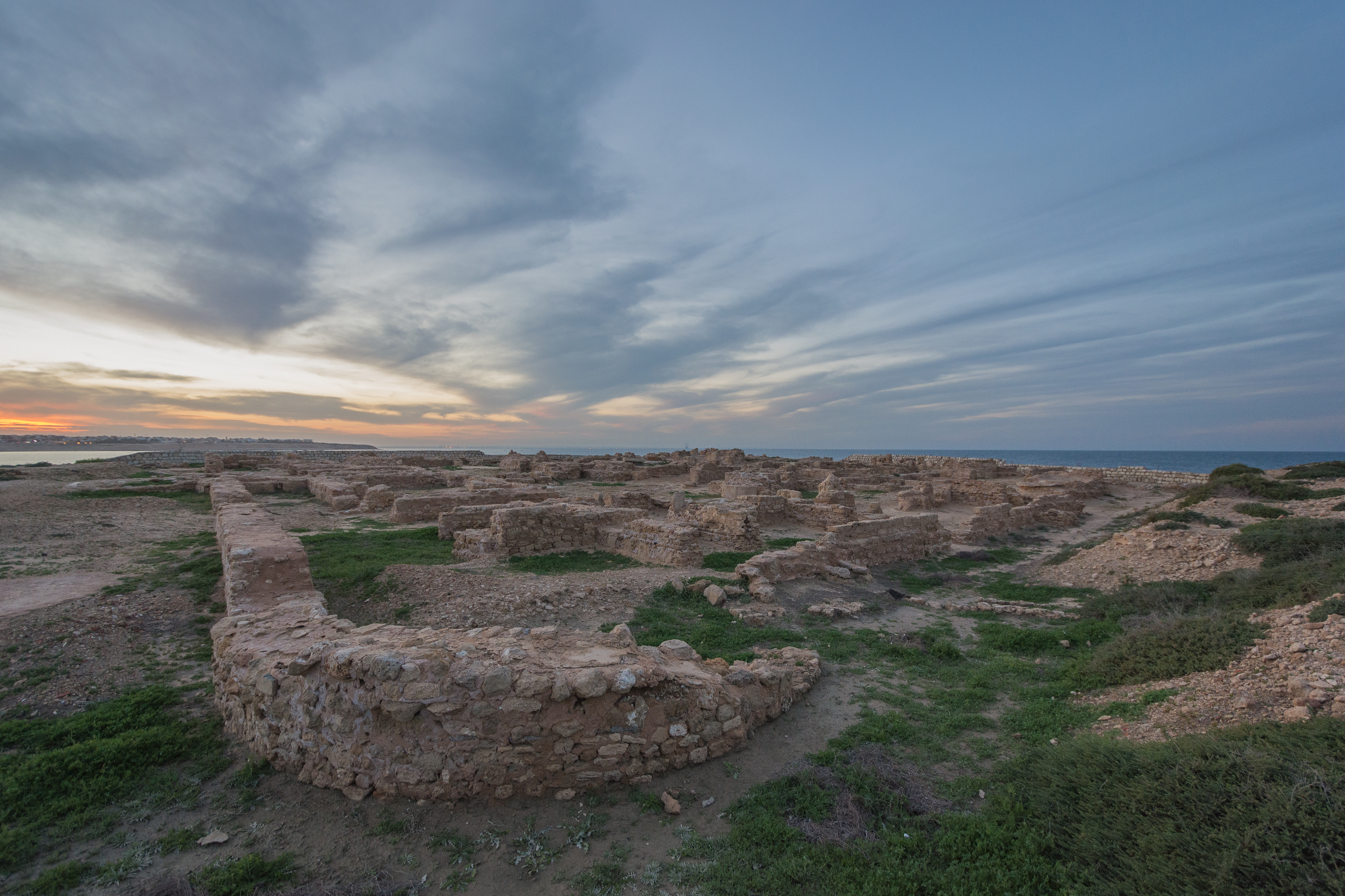 Vestige du palais d'Ibn El Jaâd à Monastir